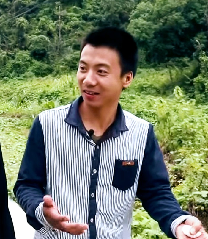 Chinese internet celebrities "Hua Nong Xiong Di"